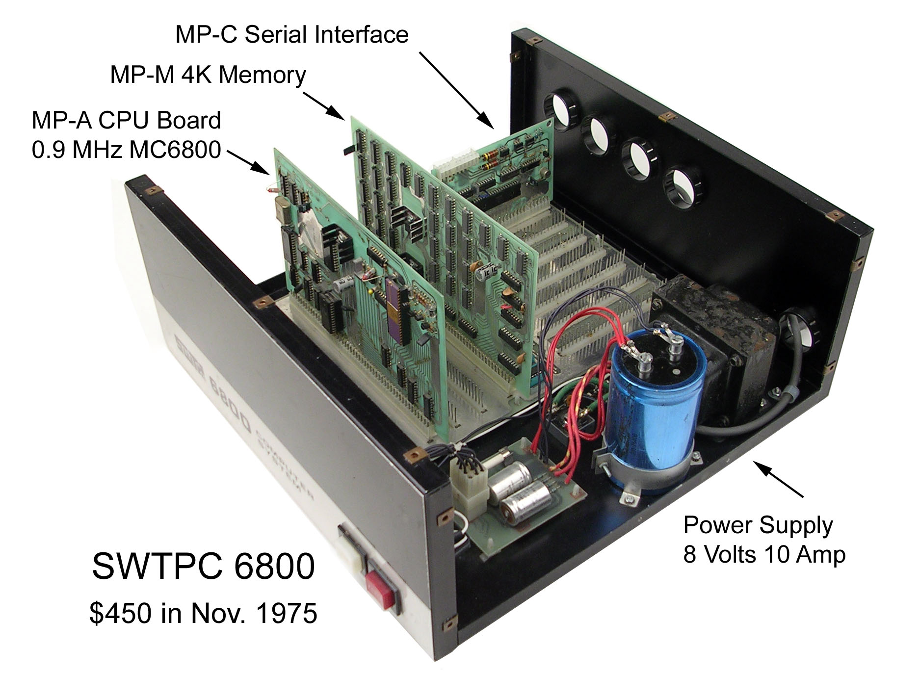 SWTPC 6800 Computer System introduced by Southwest Technical Products Corp. of San Antonio, Texas in November 1975 and sold for $450. This computer used the Motorola 6800 microprocessor and peripherals. The CPU board had 128 bytes of RAM and 1024 bytes of ROM. The minimal system also had a 4096 byte RAM board and a serial interface. The computer was used with the SWTPC CT-1024 Computer Terminal. The computer system could be expanded to 32K of RAM and 8 interface boards. A floppy disk system was introduced in June 1977. The SWTPC 6800 was upgraded in 1978 and discontinued in 1980. Photo by Michael Holley, September 2005. Taken with a Nikon E3200 camera under tungsten lighting.